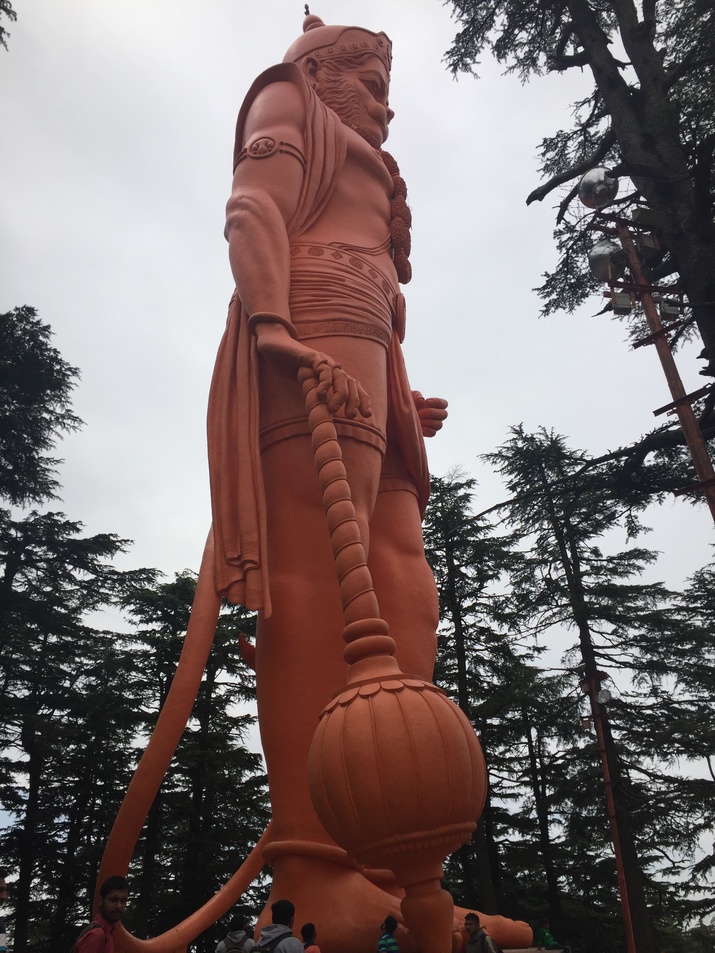 Shimla Jhakoo Temple